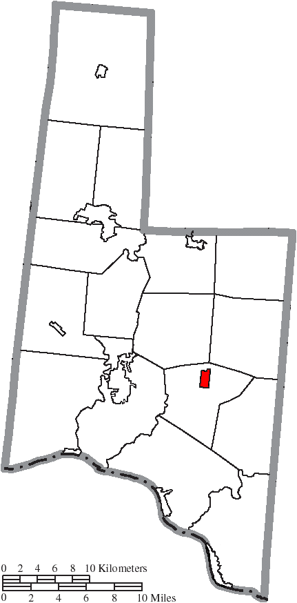 Map of the municipal and township boundaries of Brown County, Ohio, United States, as of the 2000 census, with the location of the village of Russellville highlighted. Township borders are shown only in unincorporated areas in order to differentiate incorporated and unincorporated areas more clearly.